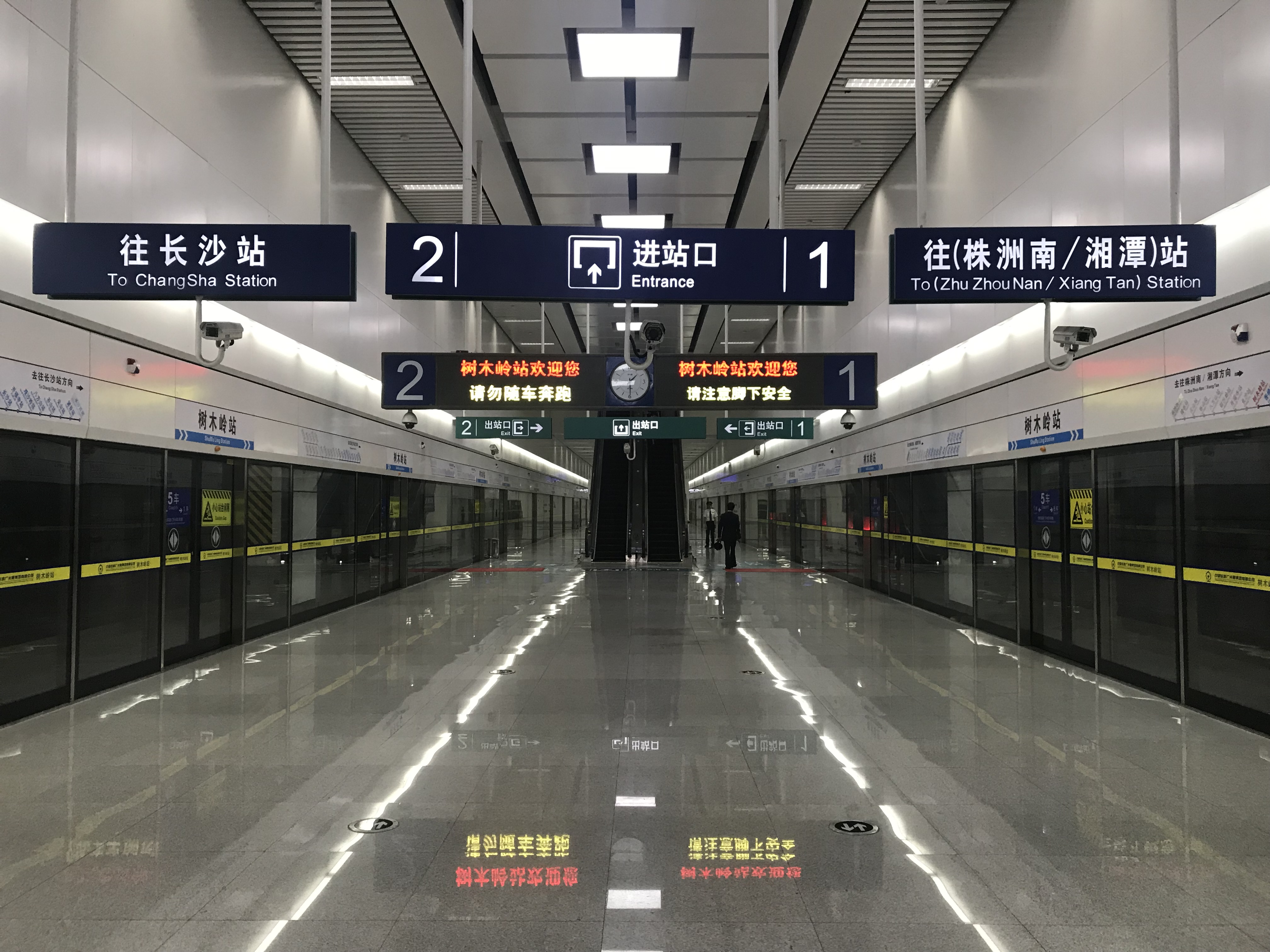 With the station announcement for the clearing of the platform...